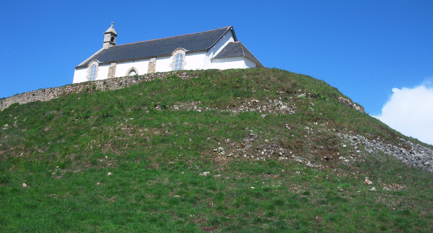 A chapel built on the tumulus Saint-Michel in Carnac (France).